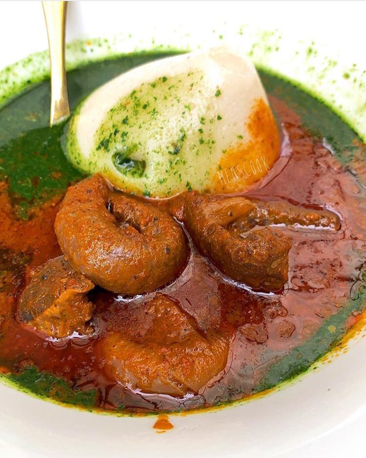 The staple food of the people of the northern part of Ghana is known as sao or Tuo Zaafi in the local dialect, which is often abbreviated TZ or T-Zed in English. Tuo Zaafi means "very hot tuo" in Hausa. It is a thick porridge of corn flour eaten by tearing off a chunk and dipping into a soup, usually of okra.